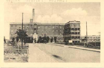 Regina General Hospital circa 1925